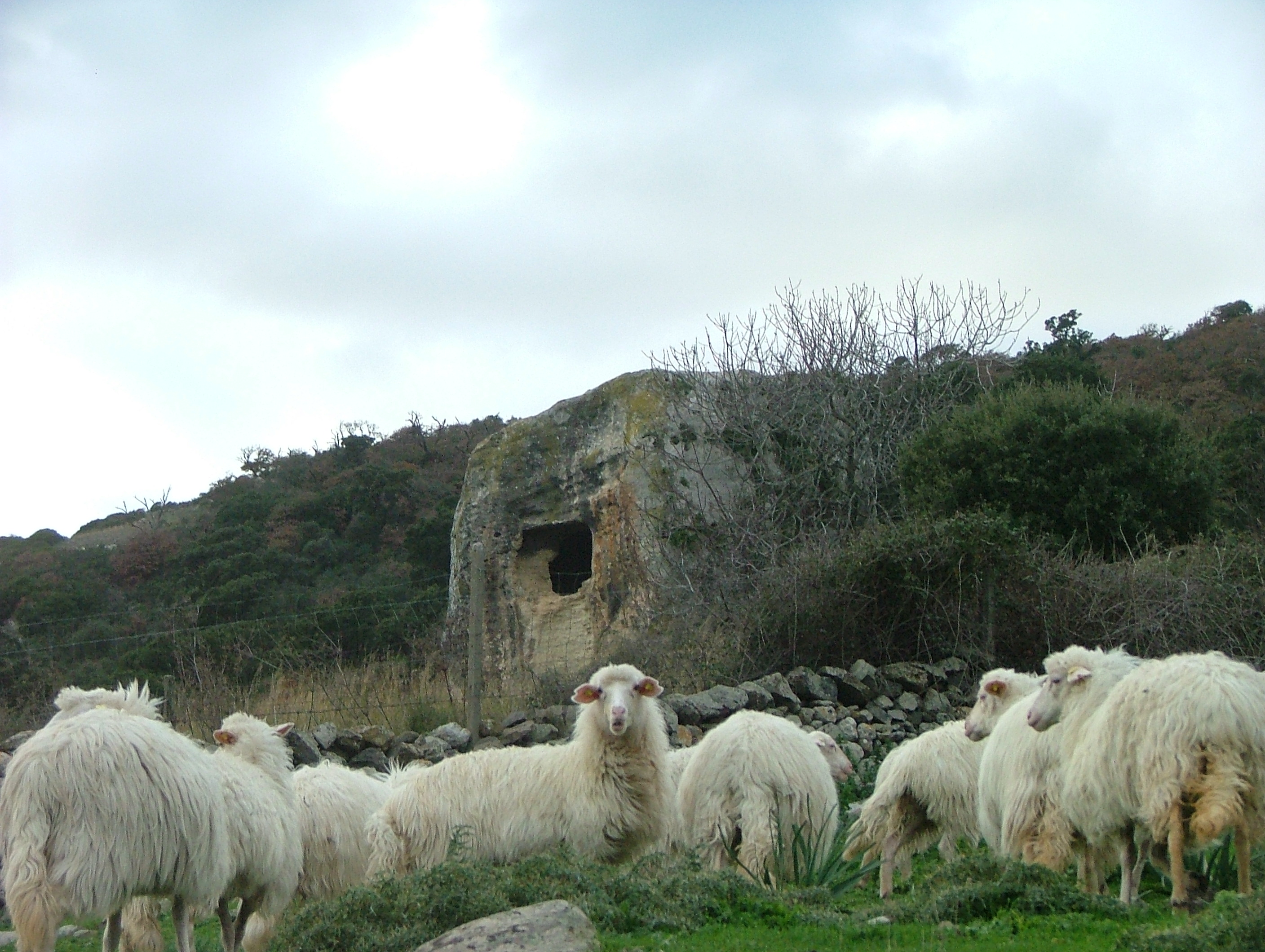 Su Crastu de Santu Eliseu, (it. Il Sasso di Sant'Elia,) si trova in agro di Mores confinante col territorio di Bonnannaro, questo enorme macigno Probabilmente precipitto a valle Dalla cima del Monte Santo, l'uomo preistorico lo ha scavato ricavandone 3 vani intercomunicanti, prima utilizato come Domus de Janas poi chiesa paleocristiana.